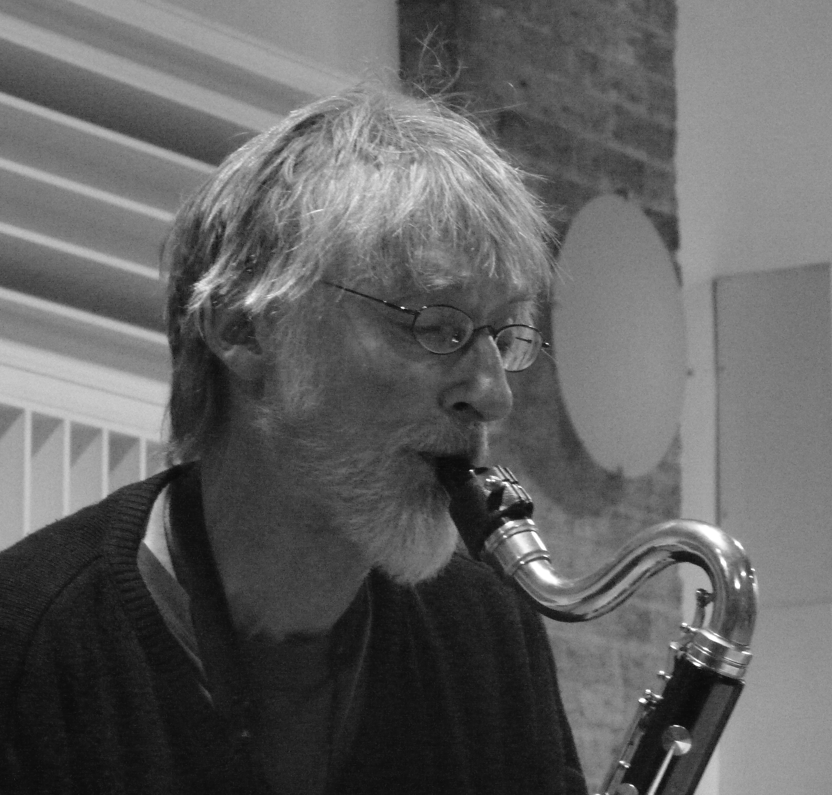 Tim Hodgkinson performing at the Spectral Music Festival in London on 2009-10-15.